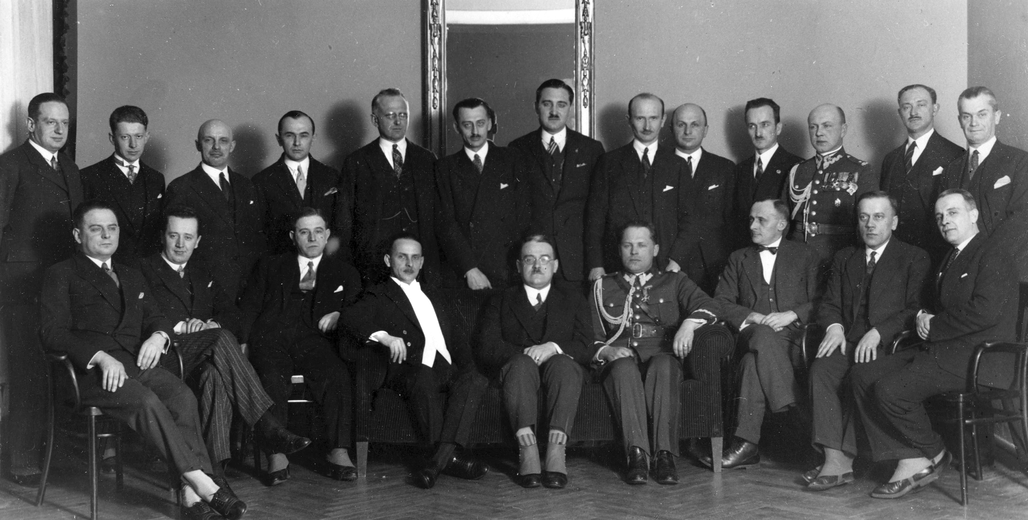 Congress of graduates of the Export Academy in Vienna. Participants of the congress in the hall of the Polonia Hotel in Warsaw. Visible (sitting rom the left) lawyer Zygmunt Rose, director Łęcki, doctor Rakowicz, doctor Zygmunt Vetulani, doctor Zygmunt Skowroński, general Wacław Scewola-Wieczorkiewicz, director Stanisław Zenon Zakrzewski, director A. Kuc, doctor Władysław Grabowski, (among standing) IKC editor Wacław Szperber (2nd on the right), Major Stanisław Próchnicki – adjutant of Marshall Józef Piłsudski (3rd on the right).